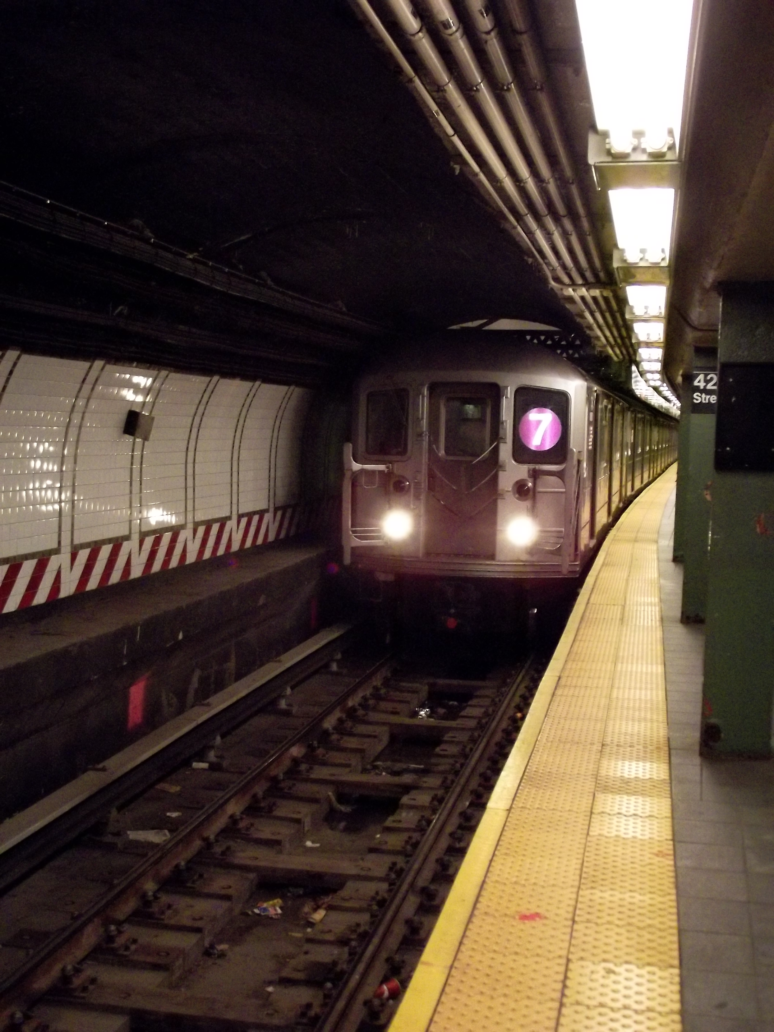 Temporary western terminal of the 7 train